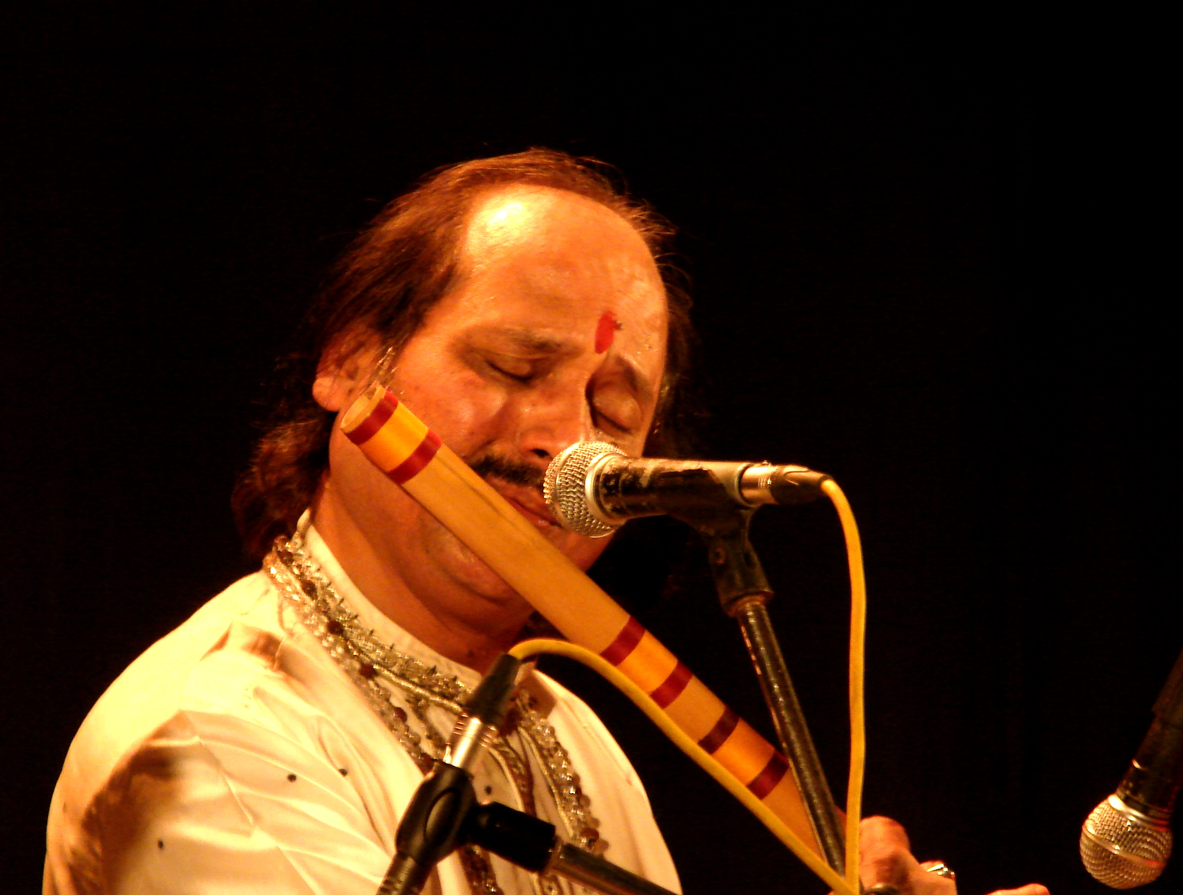 Ronu Majumdar performing in Pune